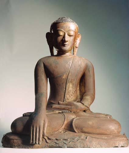 A statue of the Buddha from the Pagan Kingdom, 11th-13th century, National Gallery for Foreign Art